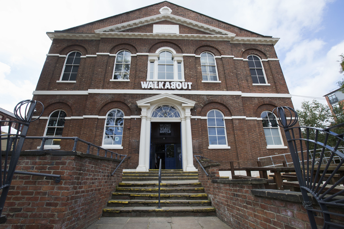 Sheffield